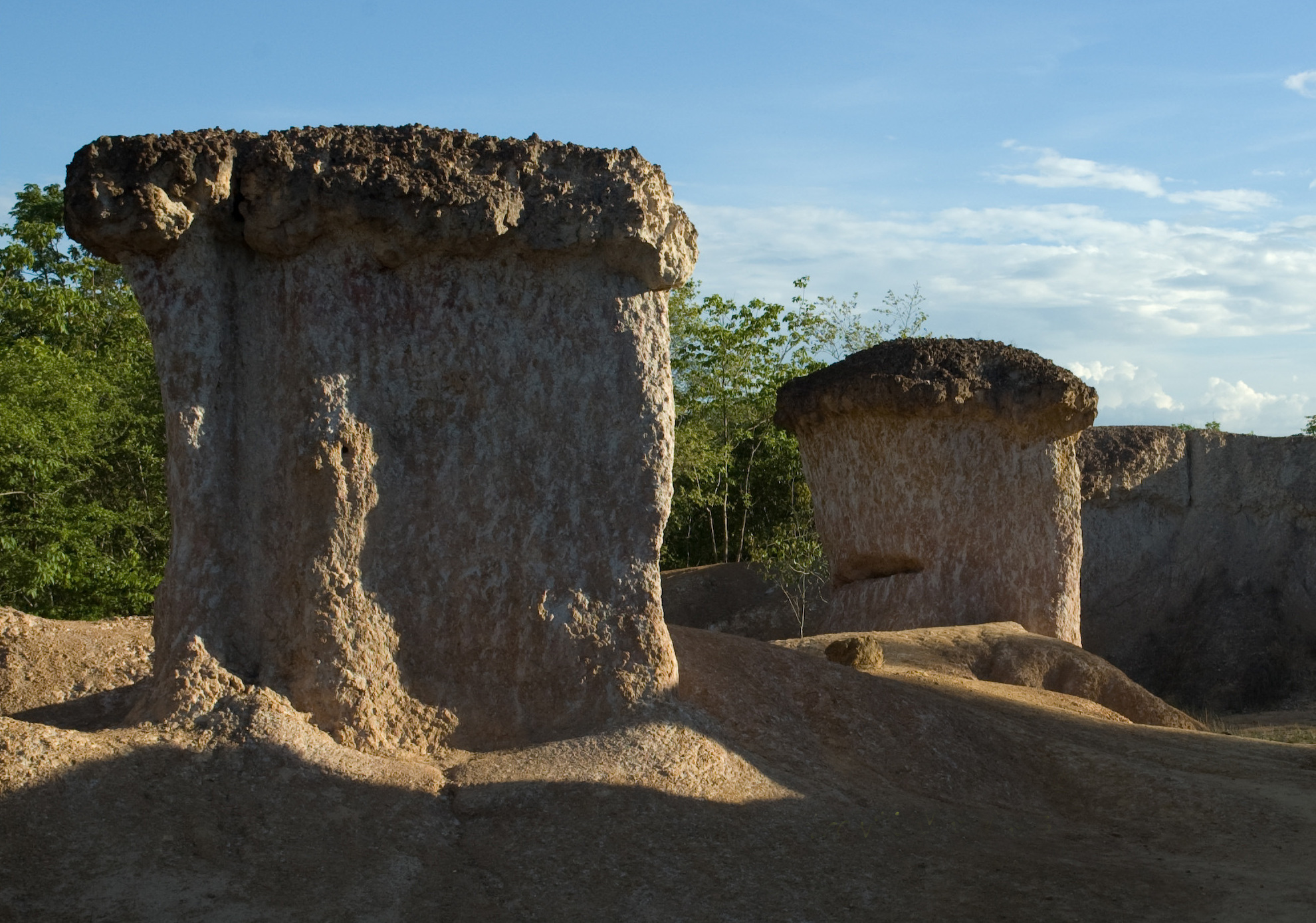 Thailand's "Grand Canyon" is located near Phrae, Thailand.